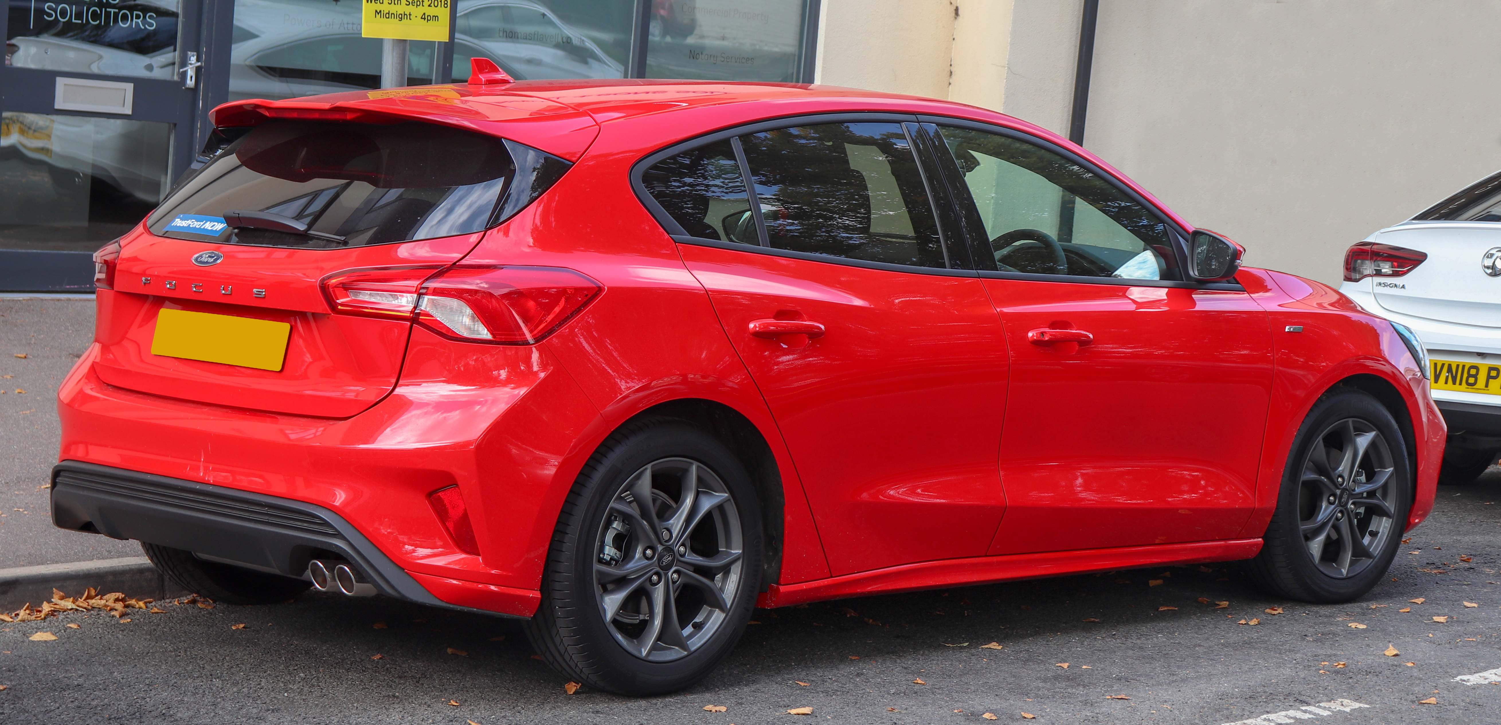 2018 Ford Focus ST-Line TDCi 1.5 Rear Taken in Leamington Spa